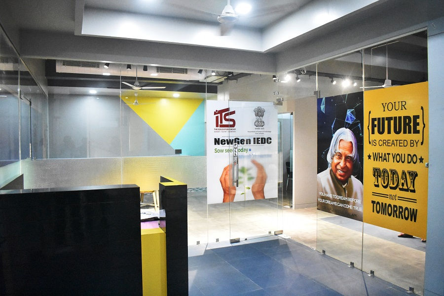 Entrepreneurship Development Cell of ITS Engineering College